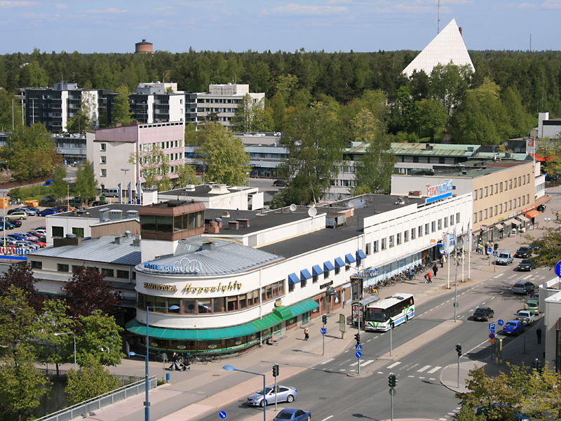 Town centre of Hyvinkää, Finland, in May 2008.